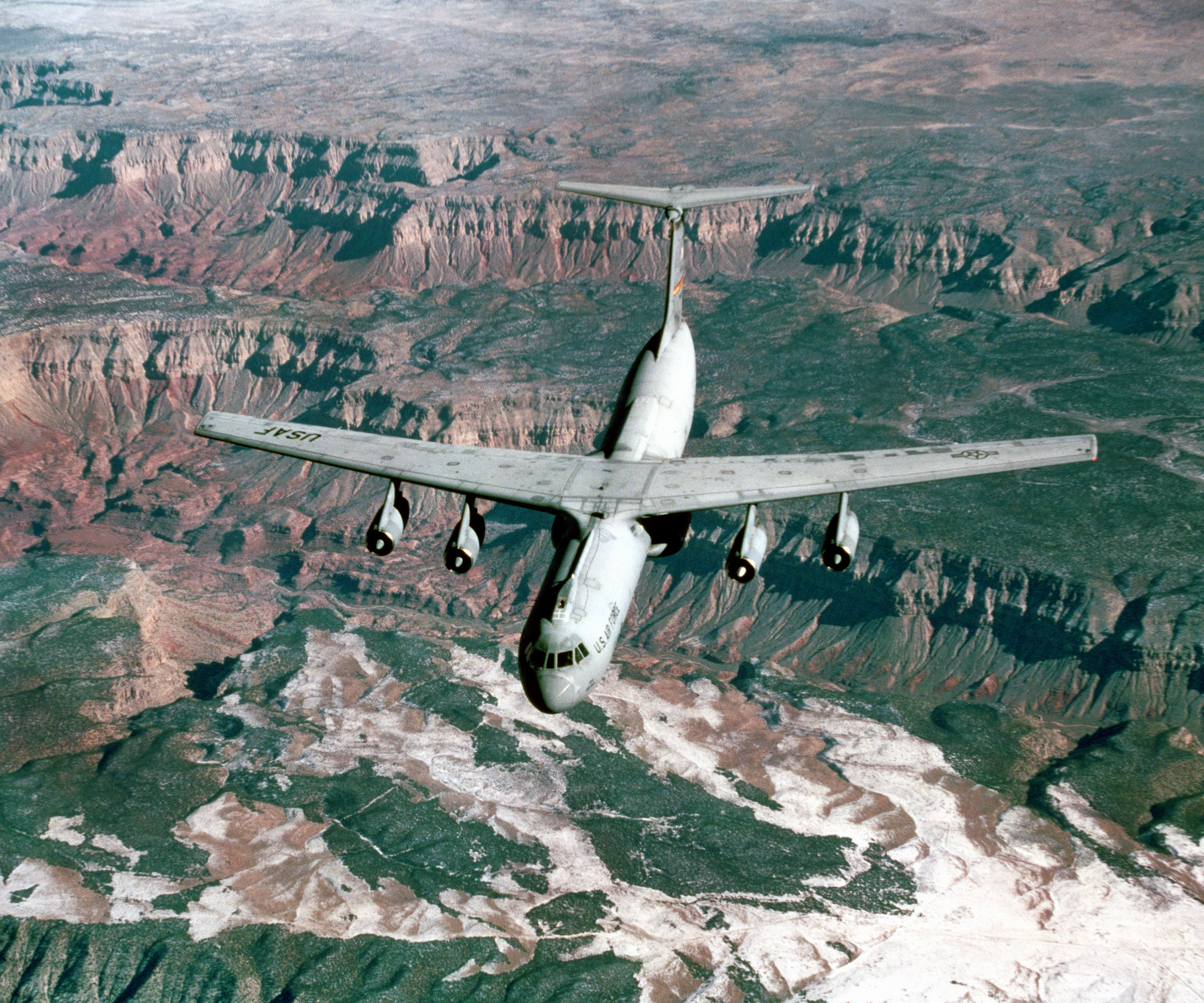 A U.S. Air Force Lockheed C-141B Starlifter of the 729th Airlift Squadron, 452nd Air Mobility Wing, from March Air Reserve Base, California (USA), in flight over the Grand Canyon, Arizona (USA), in preparation for an in-flight refueling on 18 April 1998.